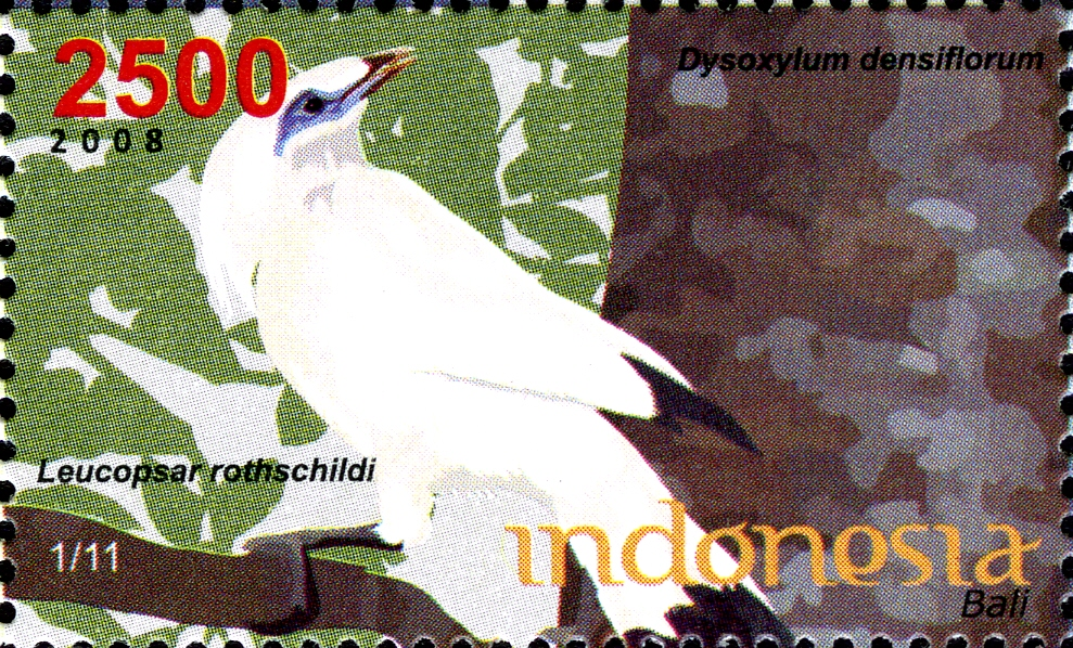 Stamps of Indonesia